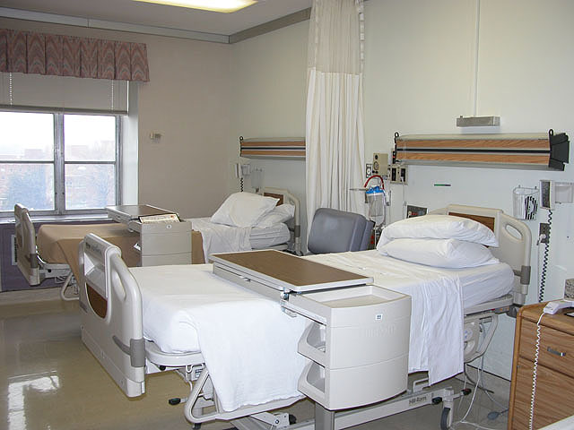 National Institute of Mental Health Clinical Center